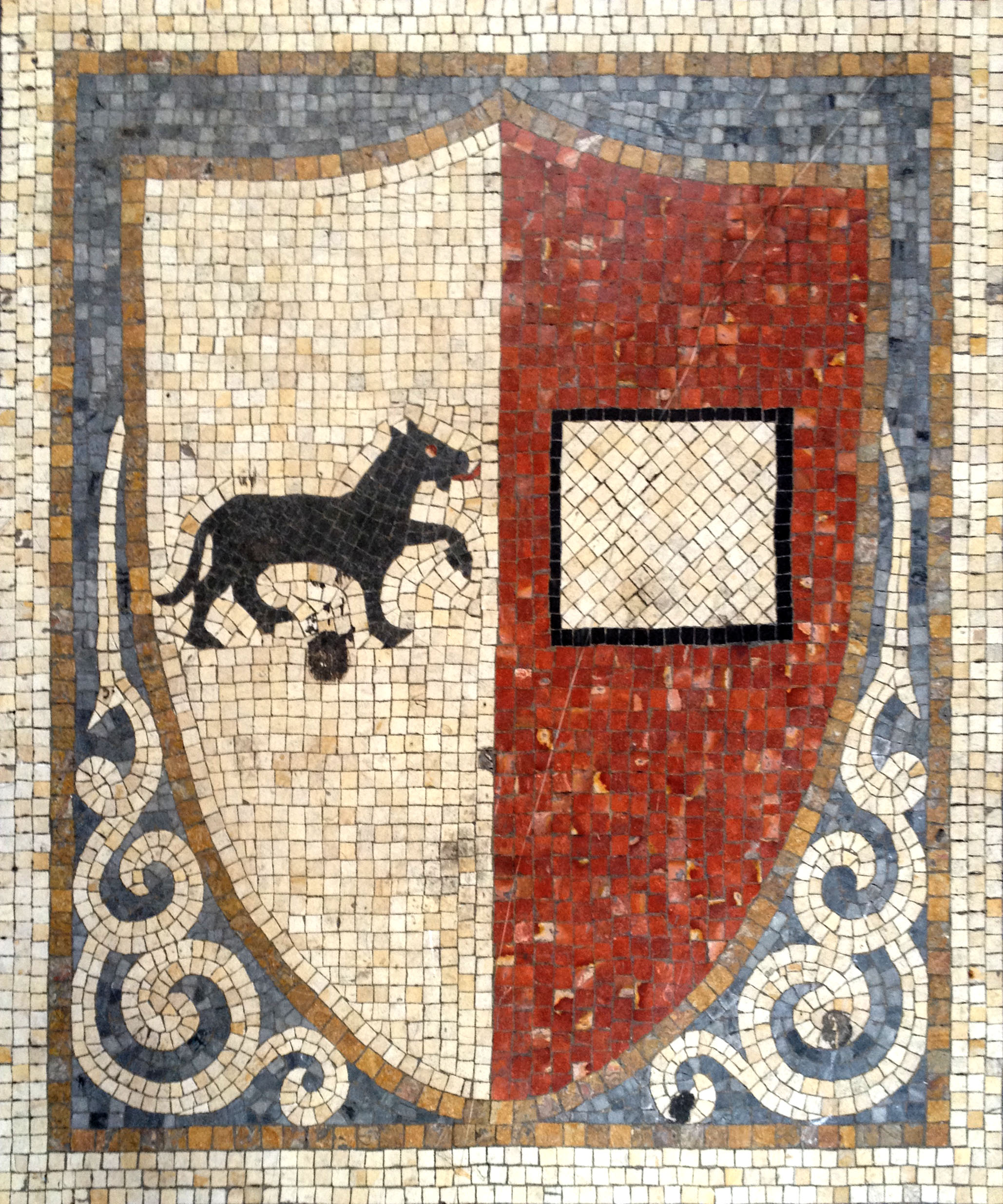 Old Piacenza Coat of Arms or Flag